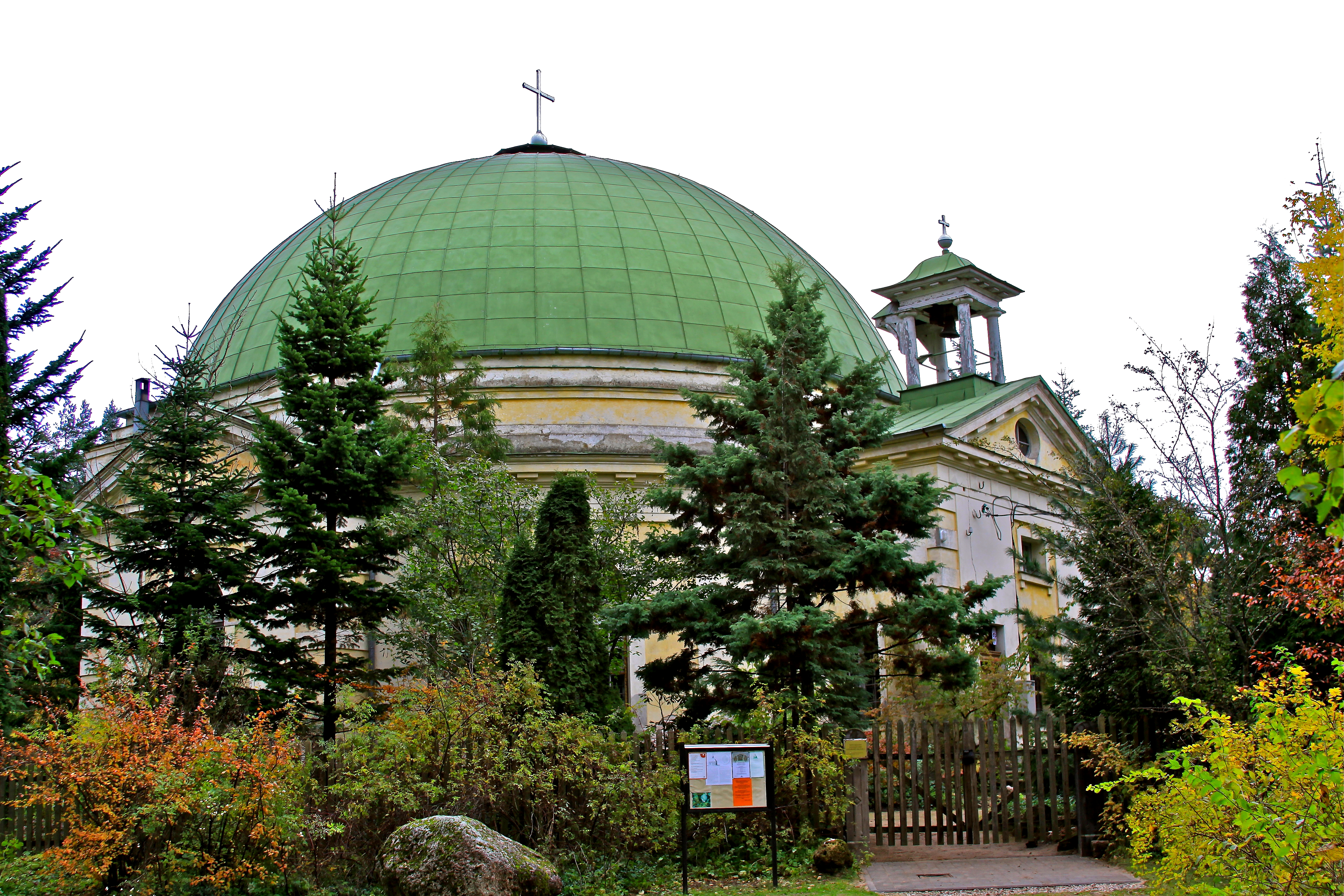 Lutheran church in Katlakalns